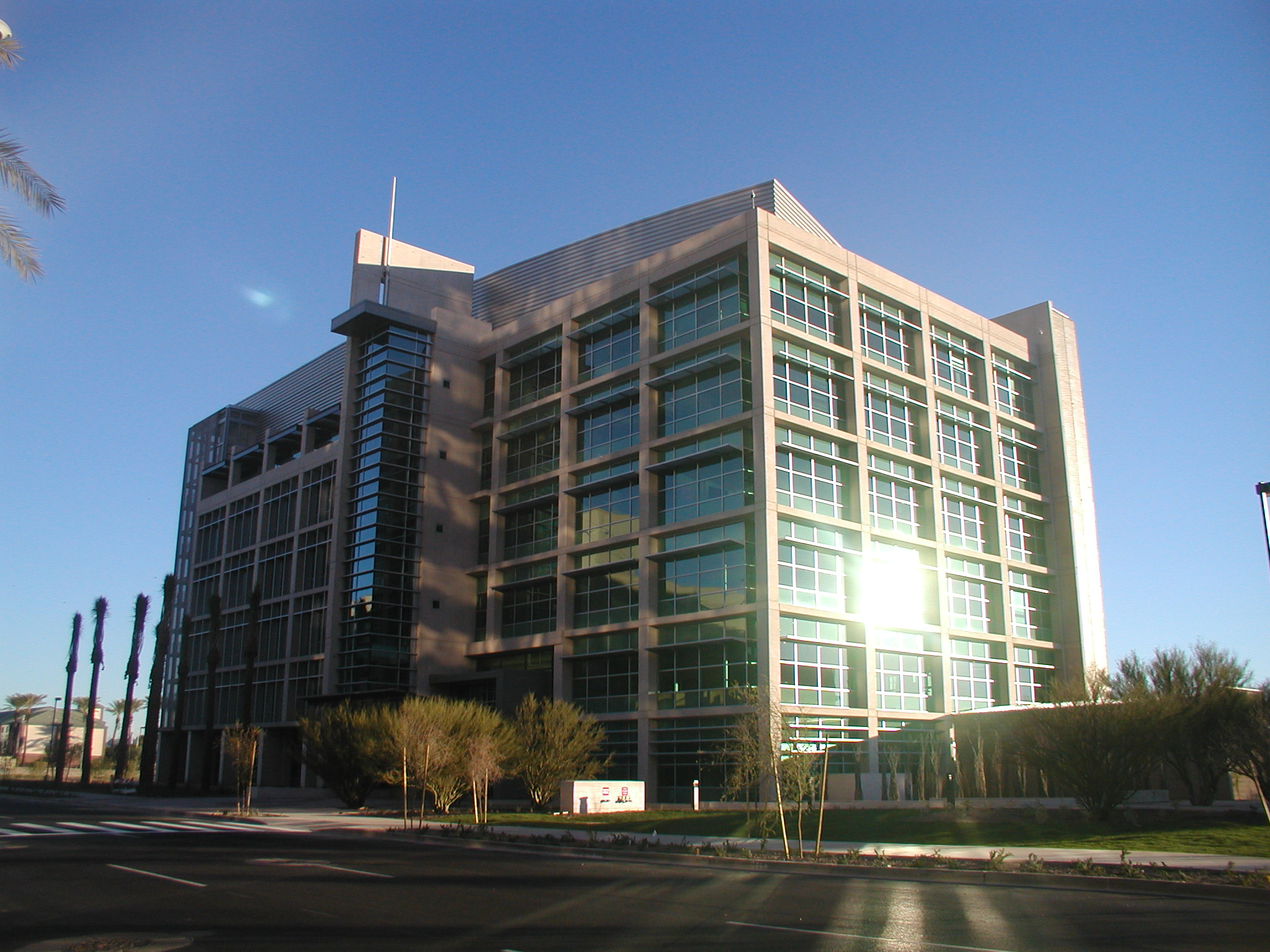 TGen Building